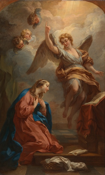 The Annunciation